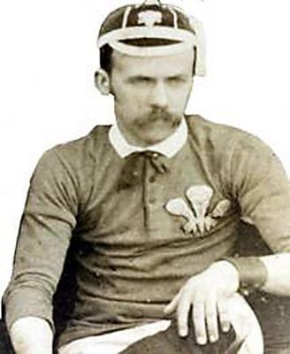 Image of Gwynn, William - Rugby union player - Swansea RFC - Won 5 Welsh caps 1884-1885